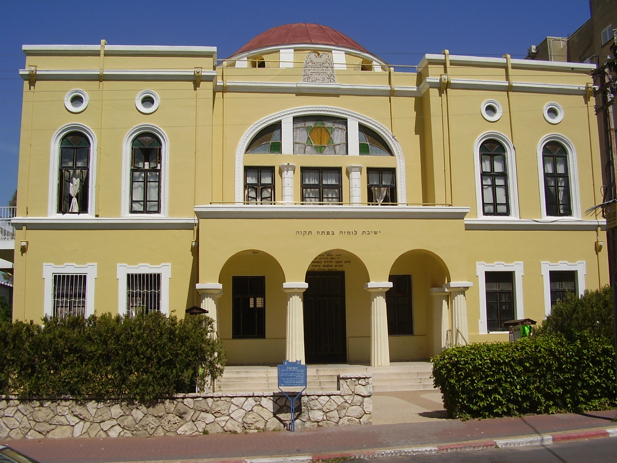 lomze yeshiva in petakh-tikva